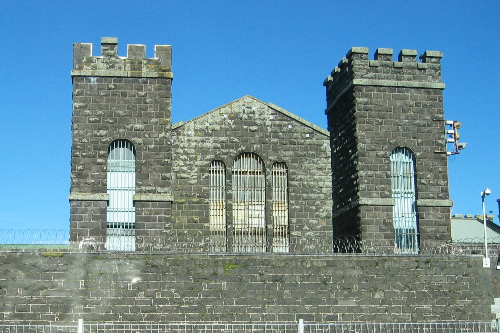 Part of Mt Eden prison, Auckland, New Zealand.